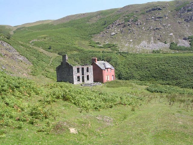 Disused leadmines in the Elan valley. A wonderful and spooky place to visit.